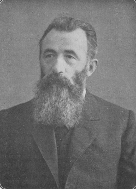 name P. VAN VLIET Jr.. political affiliationAnti-Revolutionary Party